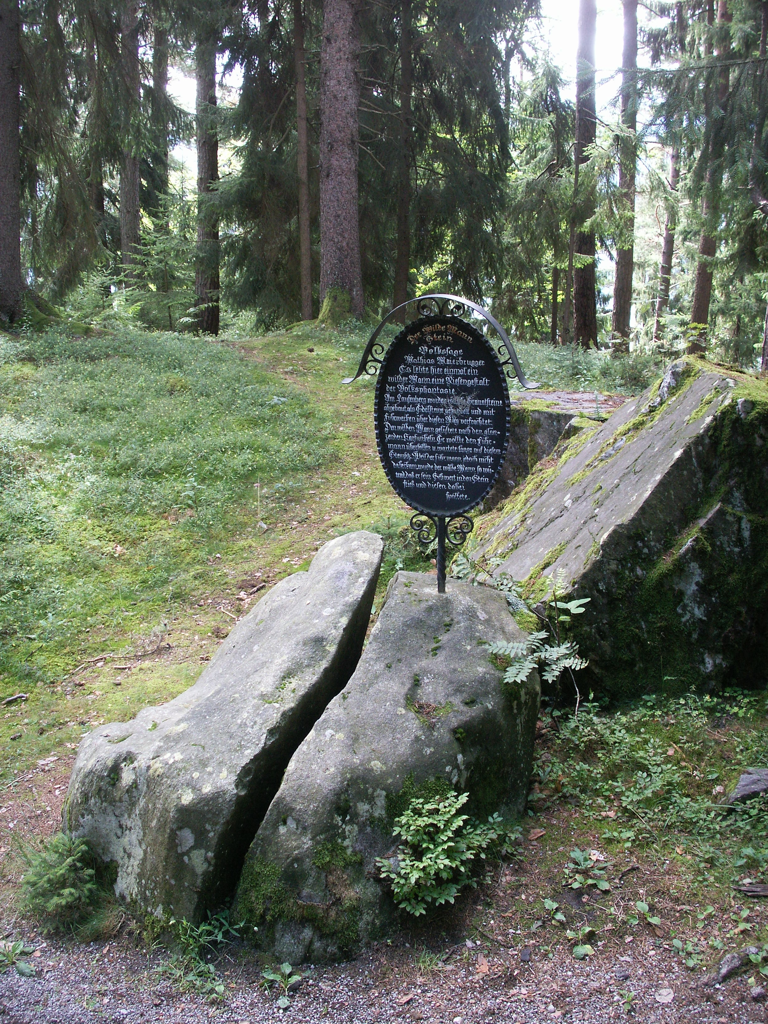 Mysterious stone near Matzelsdorf / Millstatt / Carinthia / Austria / Central Europe.